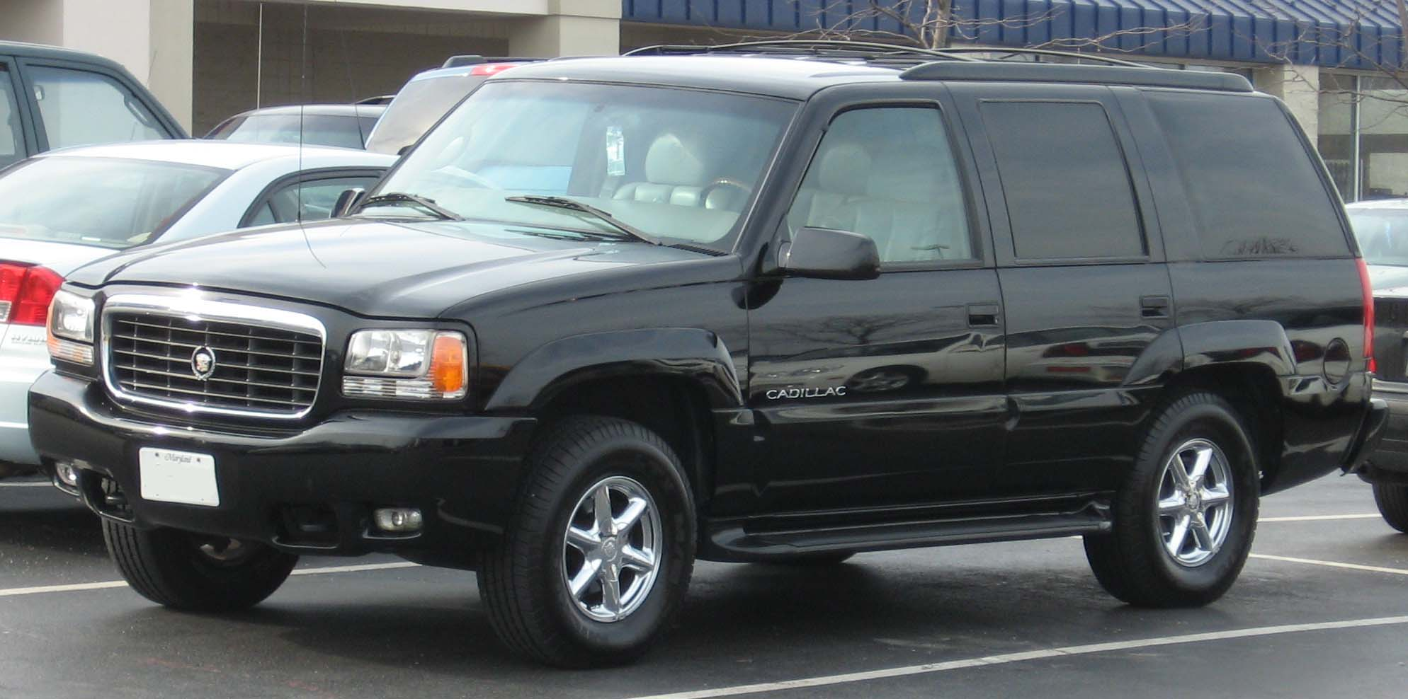 1999-2000 Cadillac Escalade photographed in USA.